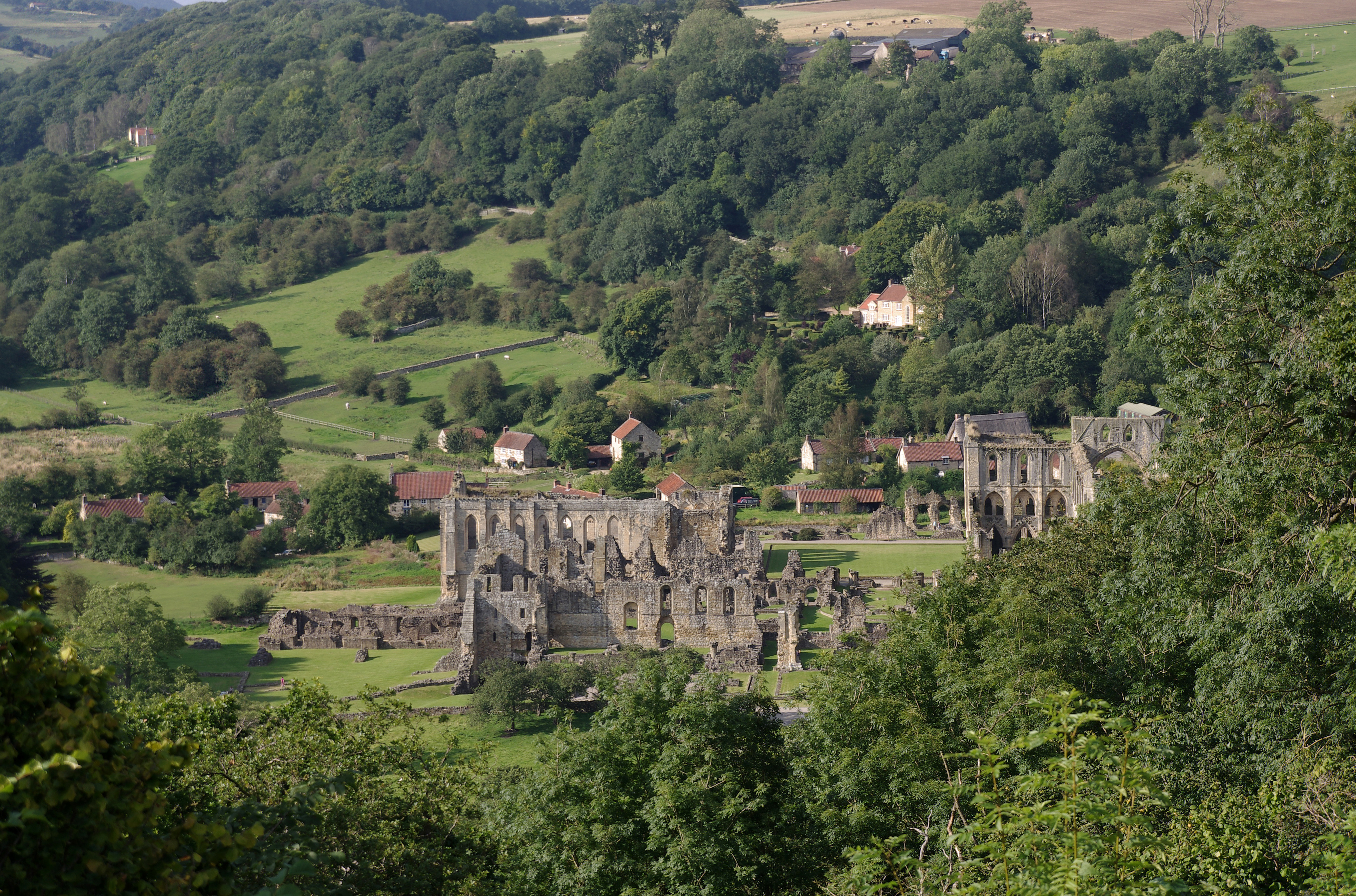 Looking out over Ryedale and Rievaulx Abbey from Rievaulx Terrace.